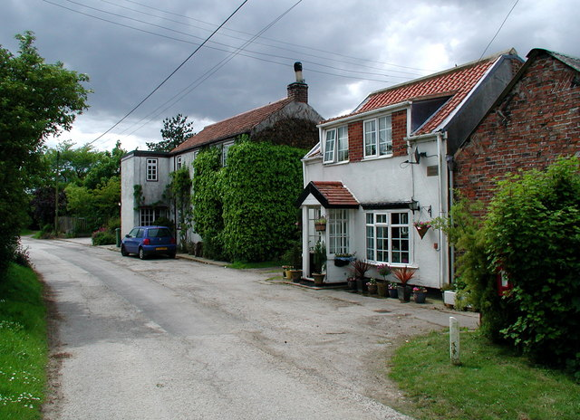 Fitling Lane, Fitling, East Riding of Yorkshire, England.Houses in the scattered hamlet of Fitling, namely Stocks Garth with Redd Dawn beyond, on Fitling Lane between Charity Farm and Westfield.